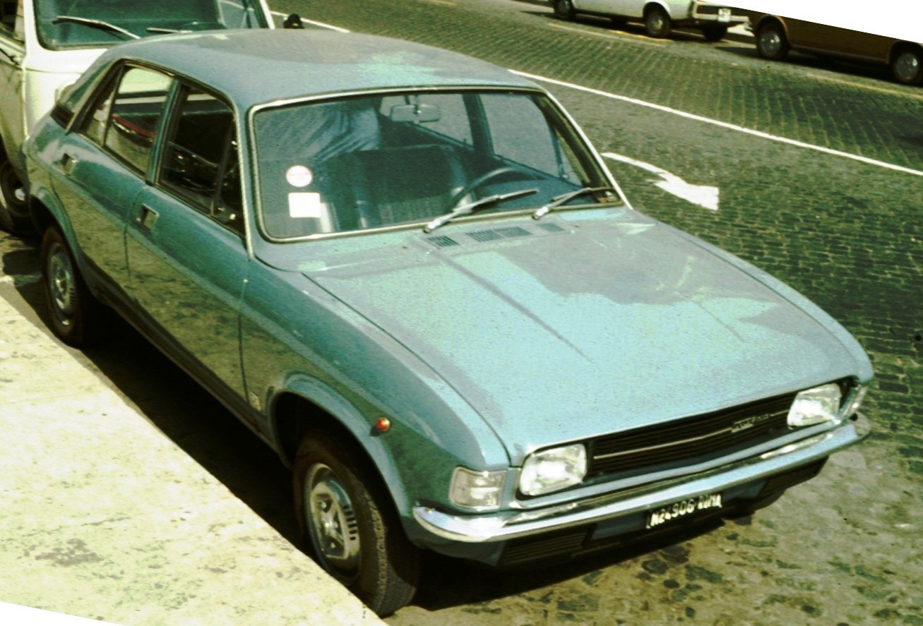 Innocenti Regent in Rome